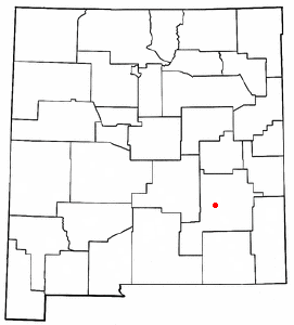 Location map of Roswell, New Mexico.